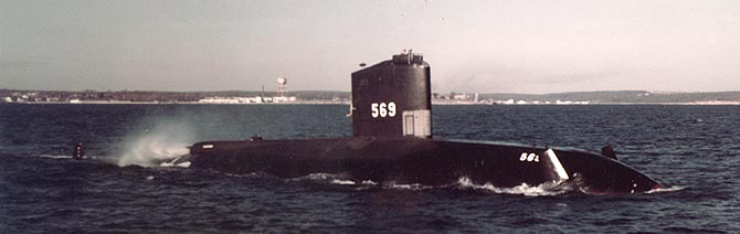 The U.S. Navy submarine USS Albacore (AGSS-569) underway off Newport, Rhode Island (USA), on 11 March 1957.